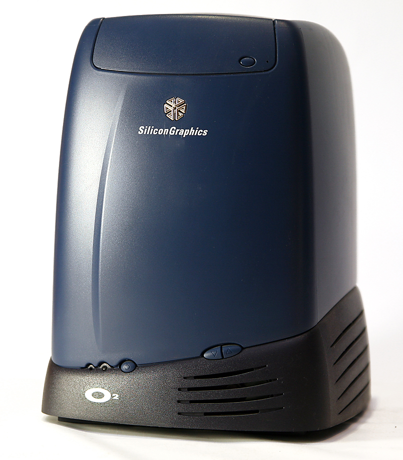 SGI O2 front view